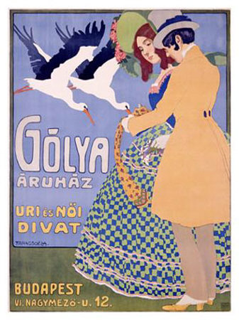 Shop poster